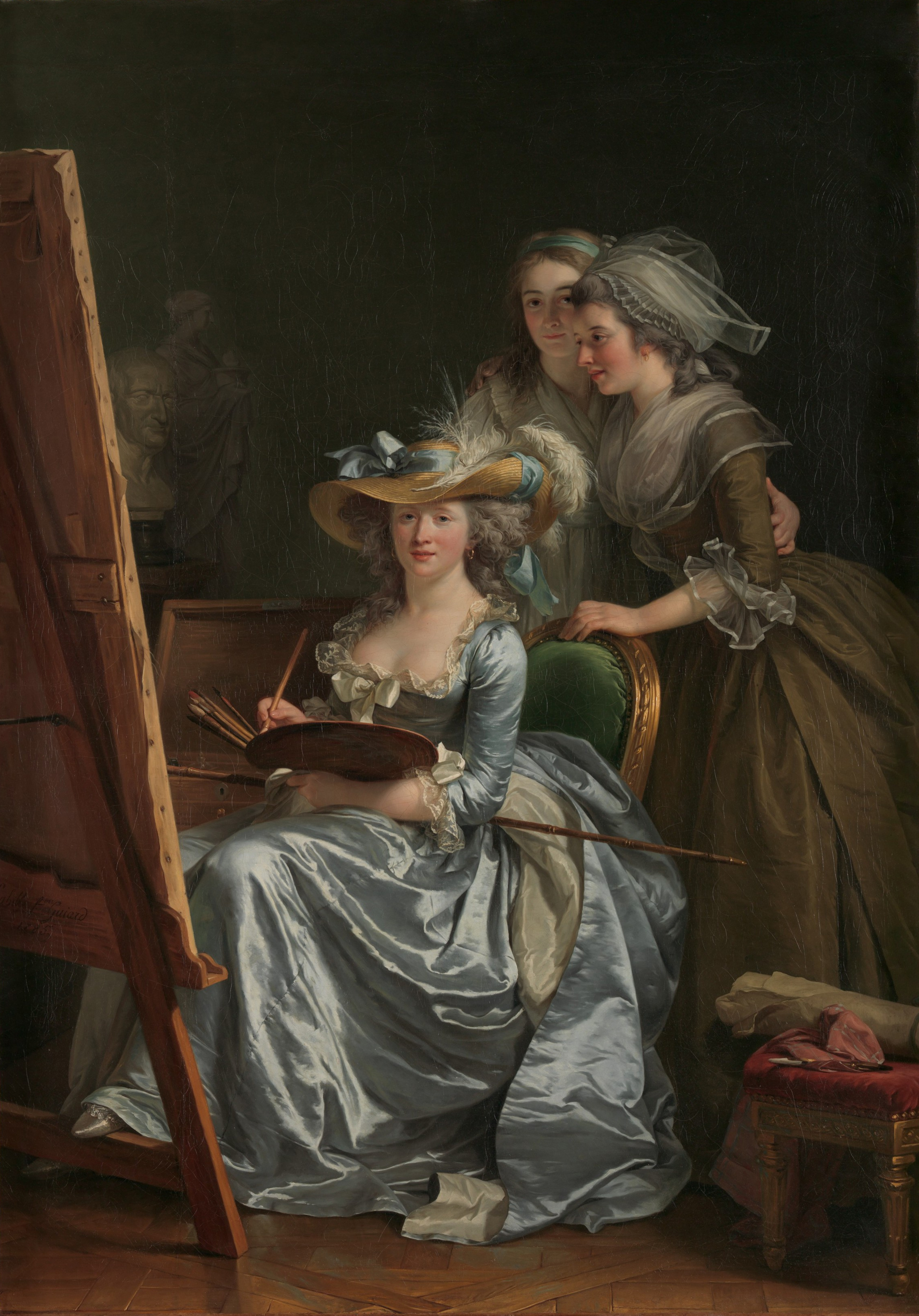 with Marie Gabrielle Capet (1761–1818) and Marie Marguerite Carreaux de Rosemond (died 1788))